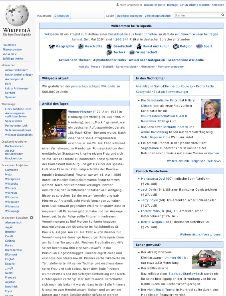 German Wikipedia congratulates Persian Wikipedia on its main page, after Persian Wikipedia hits 500000 articles.